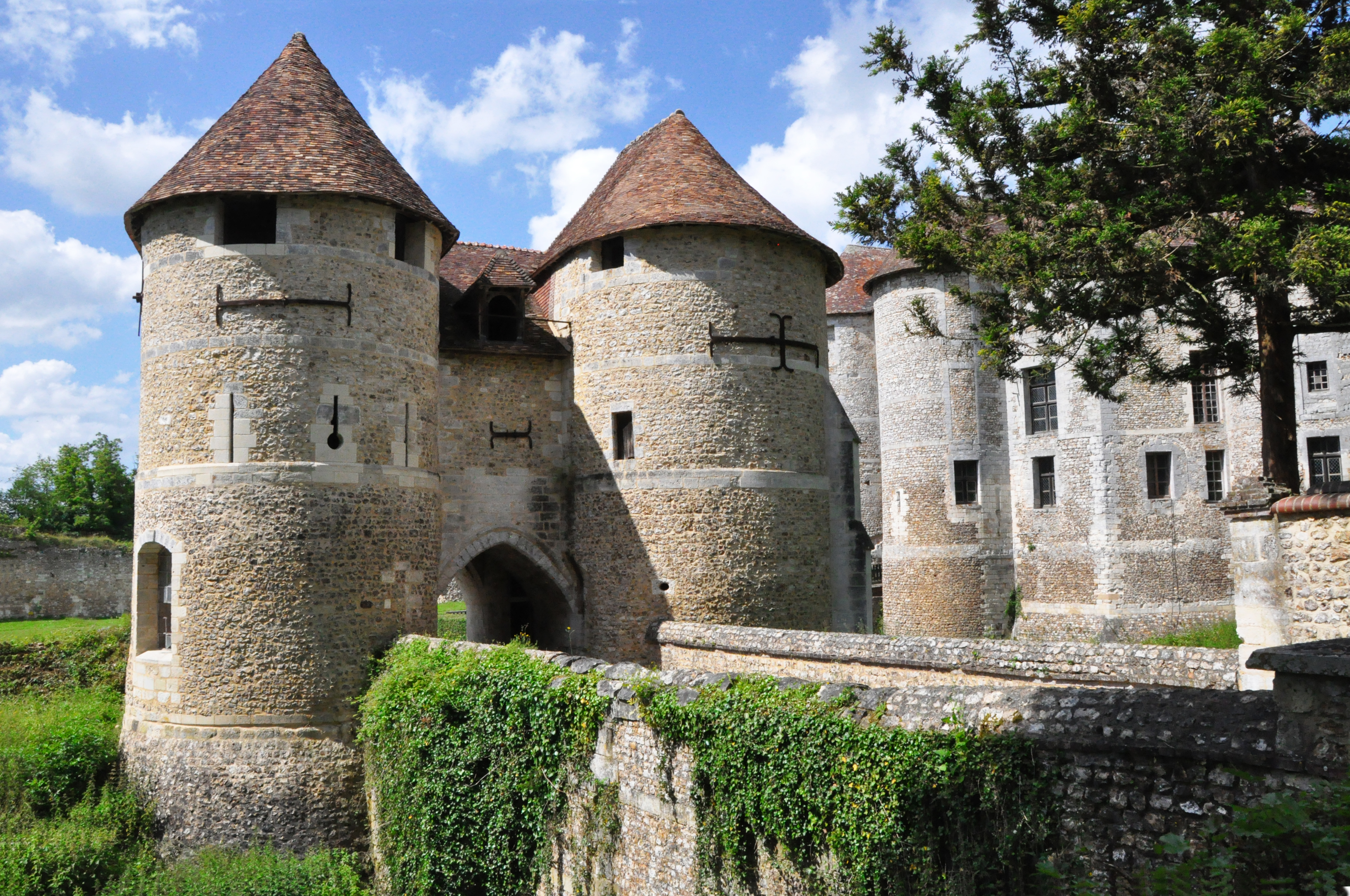 Castle of Harcourt (France, Normandy)